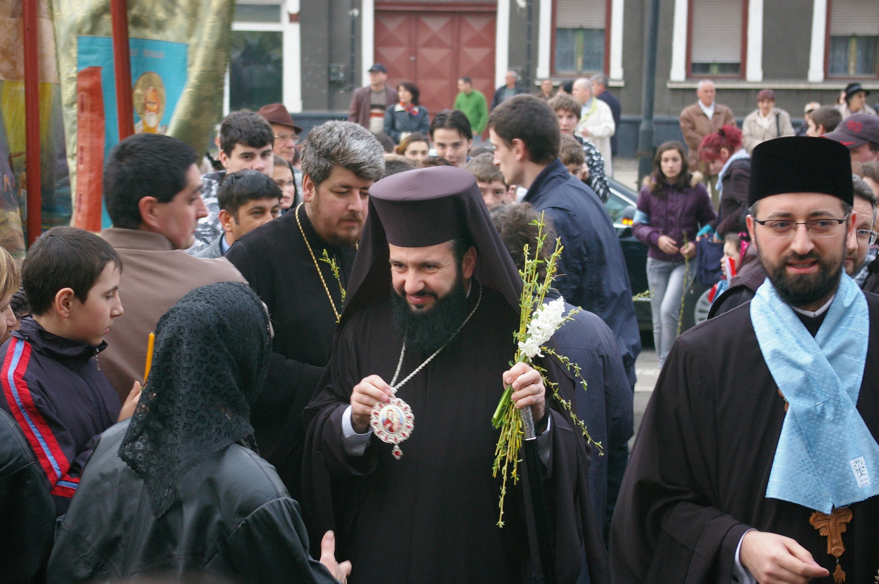 Pr. Lucian Mic at the Ecumenical Palm Sunday Procession in Reşiţa - March 28 2010 - before the event starts